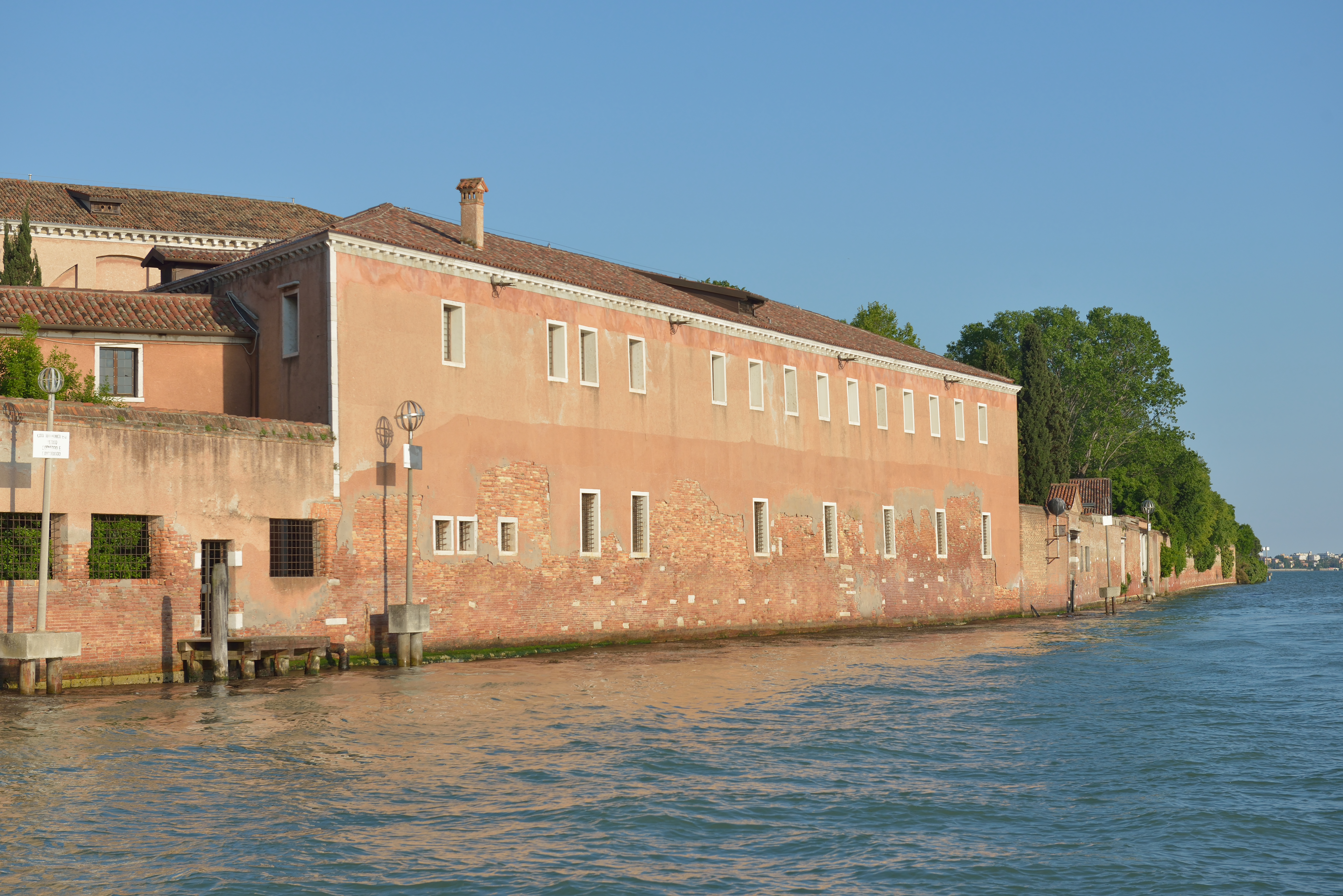 West facade San Giorgio Monastery in Venice